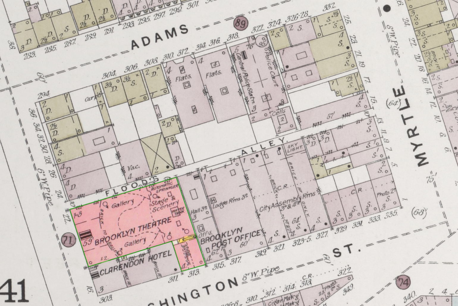 Excerpt from double page plate 40 of the Sanborn Brooklyn Maps, Volume Two, 1887 edition, with a highlight on the lot occupied by the Brooklyn Theatre. The structure in the lot is not the original theatre, but a new building erected two years after the fire. The new theatre fit in the same lot as the original, but its internal layout was wholly unlike the original Brooklyn Theatre.